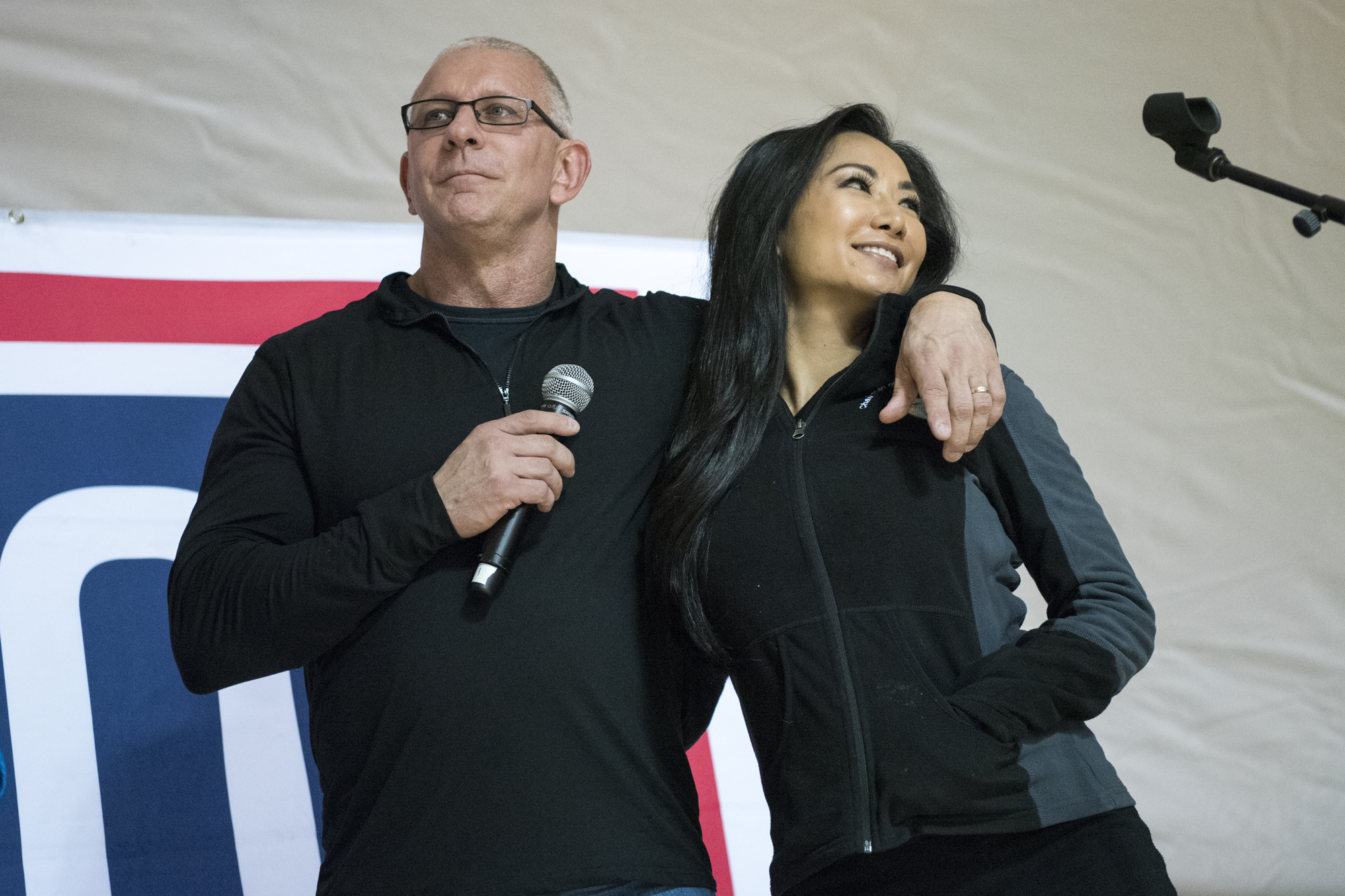 Chef Robery Irvine and Wrestler Gail Kim perform for service members at bases across Iraq for the Chairman's USO Holiday Tour, Dec. 25, 2016. Dunford, along with USO entertainers, visited service members who are deployed from home during the holidays at various locations across the globe. This year’s entertainers were Chef Robert Irvine, Wrestler Gail Kim, Musicians Kellie Pickler and Kyle Jacobs, and Roastmaster Jeff Ross. (DoD photo by Navy Petty Officer 2nd Class Dominique A. Pineiro/Released)